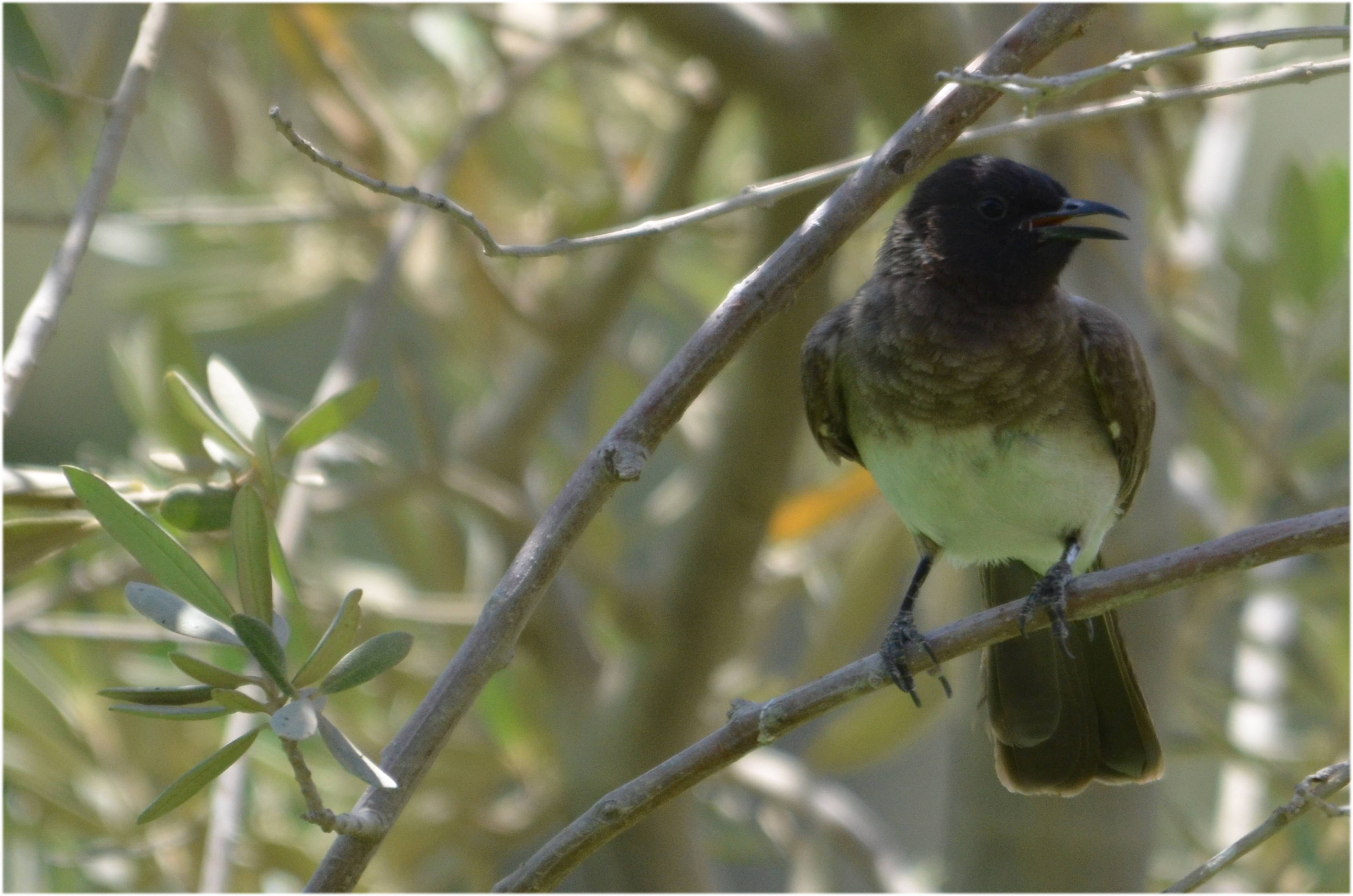 Common bulbul